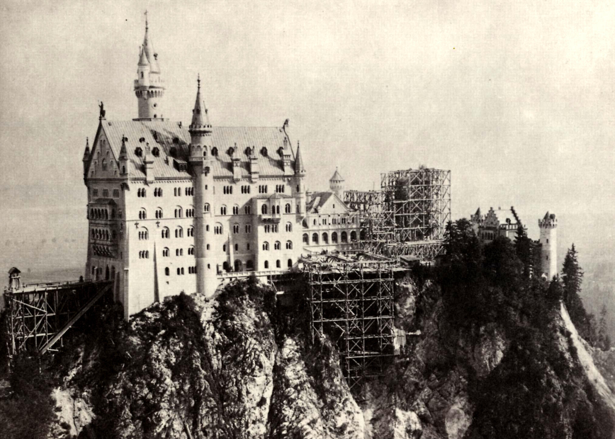 Neuschwanstein Castle during construction.